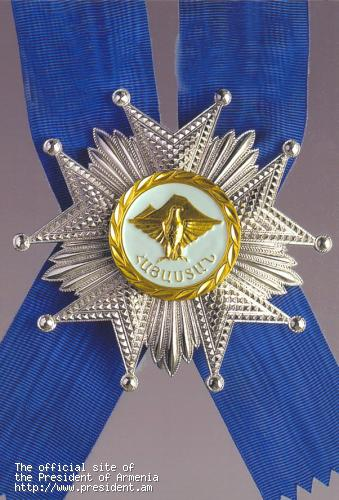 The «Order of Honor» — State Awards in the Republic of Armenia